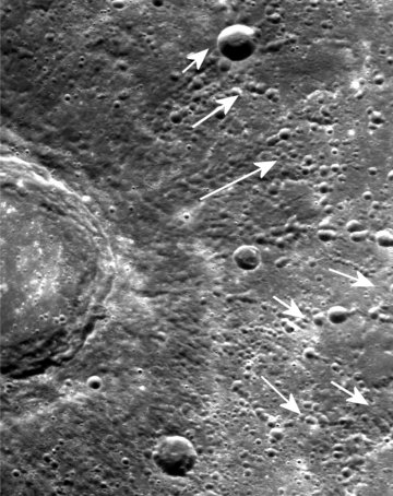 This image identifies secondary craters just beyond the site of an impact crater on Mercury. As of March 2020, the crater is unnamed. The image (EN0108826040M) is at about 6 S, 220 W.